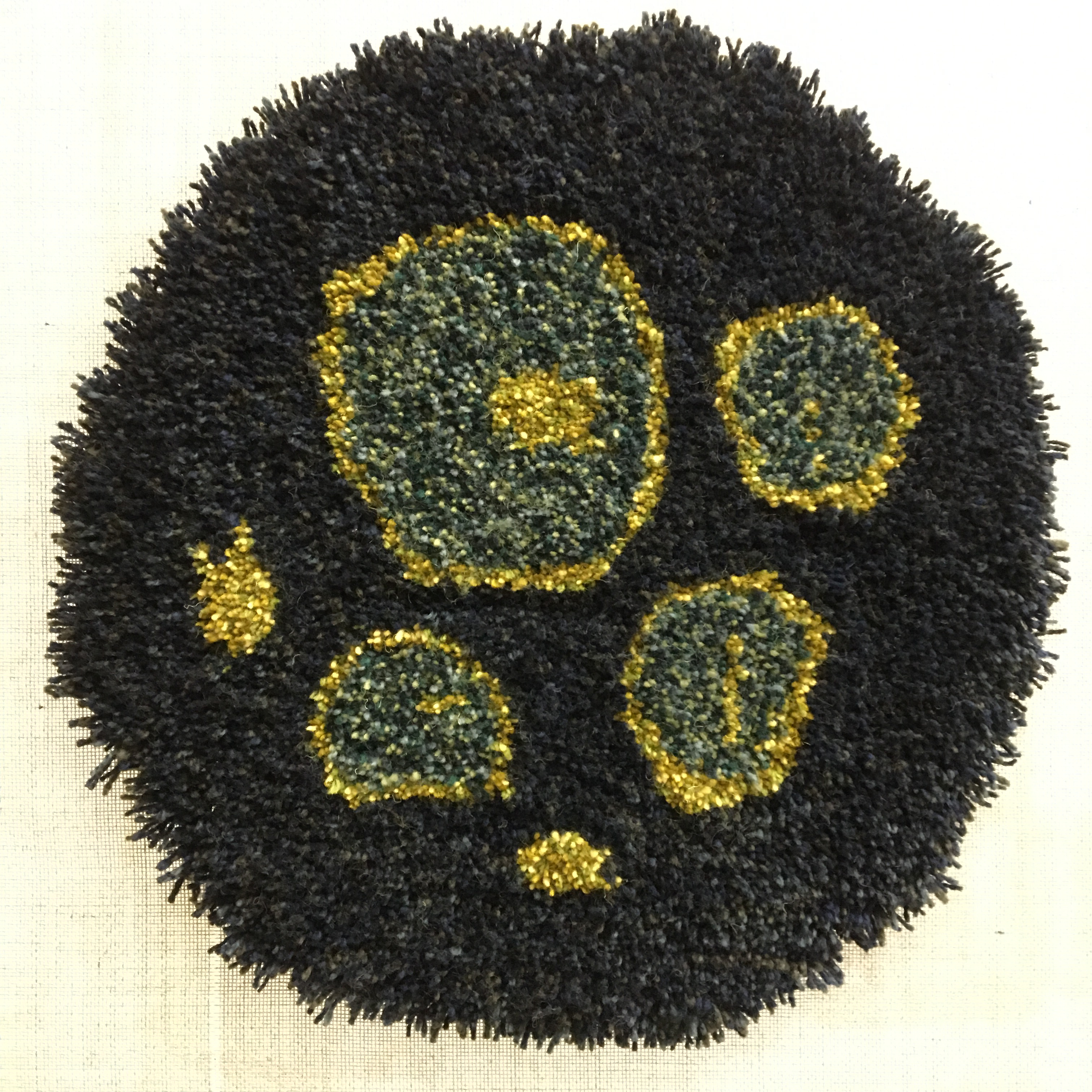 Handtufted art work, frontside.